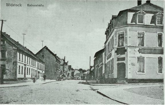 Bildstock (Saar region), view from market square to Kaiserstraße (today: Neunkircher Straße)